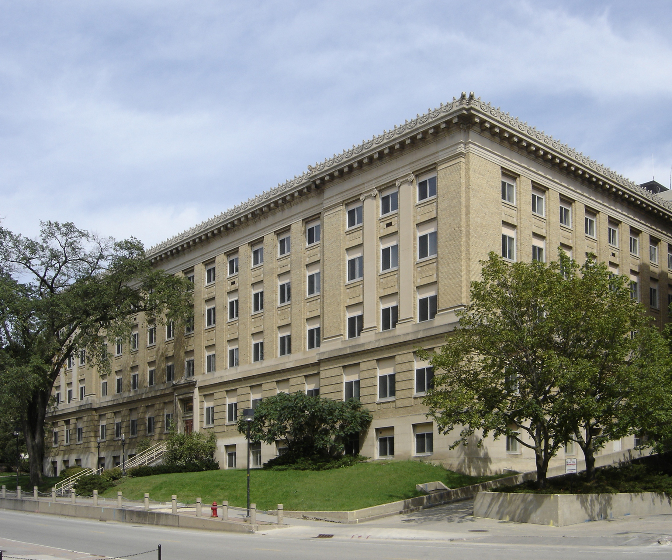 This is Sterling Hall at the University of Wisconsin - Madison. It was once home to the Physics Department.